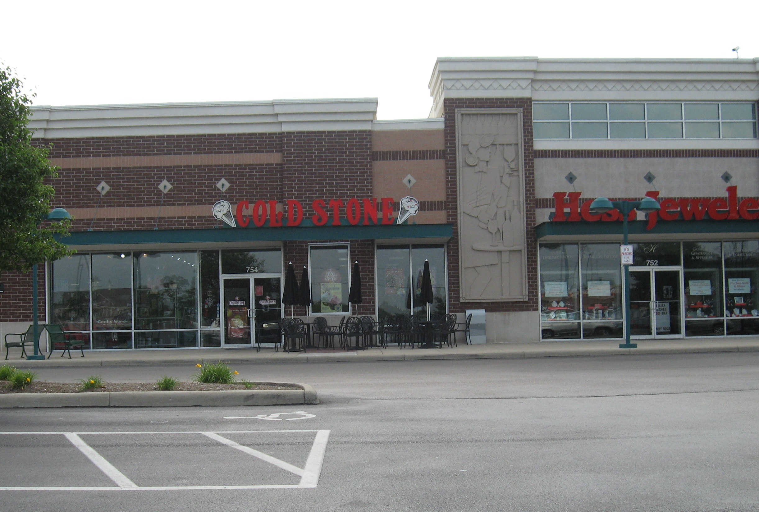 Coldstone Creamery (Springboro, Ohio, USA)